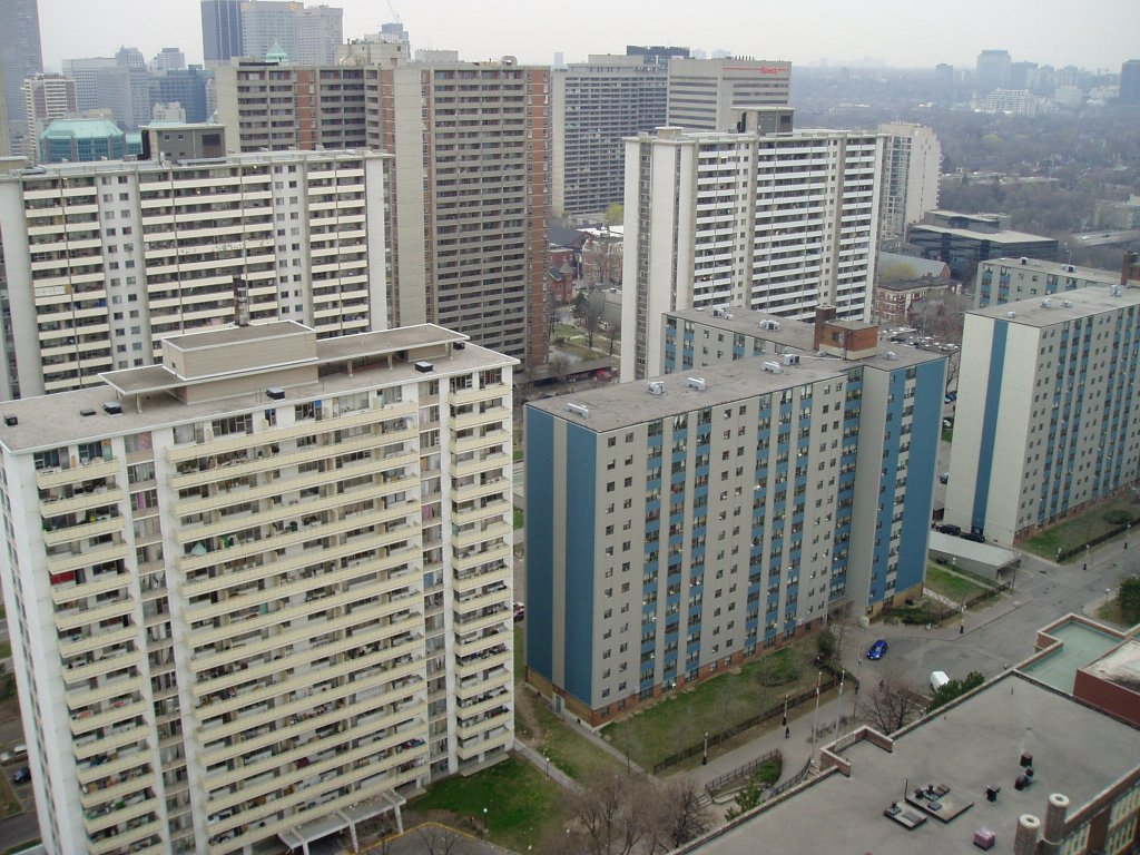 Taken by SimonP in April 2005